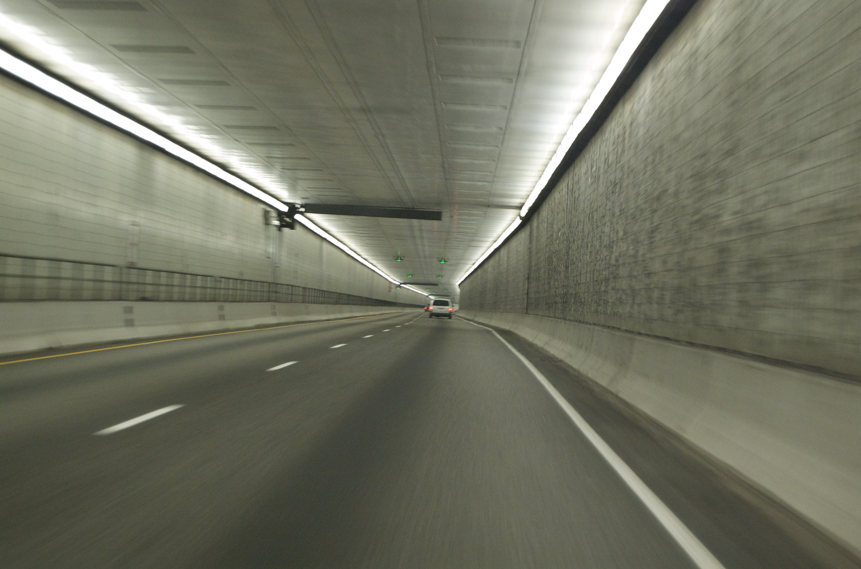 The Eisenhower Tunnel is a vehicular tunnel on Interstate 70 approximately 60 miles west of Denver, Colorado. The tunnel was built under the Continental Divide, and at a maximum elevation of 11,158 feet (3401 m) it is the highest vehicular tunnel in the world. It is also the longest tunnel built under the Interstate highway program and one of the last major pieces of the system to be completed. Its full official name is the Eisenhower-Johnson Memorial Tunnel (EJMT); the westbound bore is named after U.S. President Dwight D. Eisenhower (for whom the Interstate system is also named), the eastbound bore after Edwin C. Johnson, a former governor and U.S. Senator from Colorado. From Eisenhower Tunnel, Wikipedia